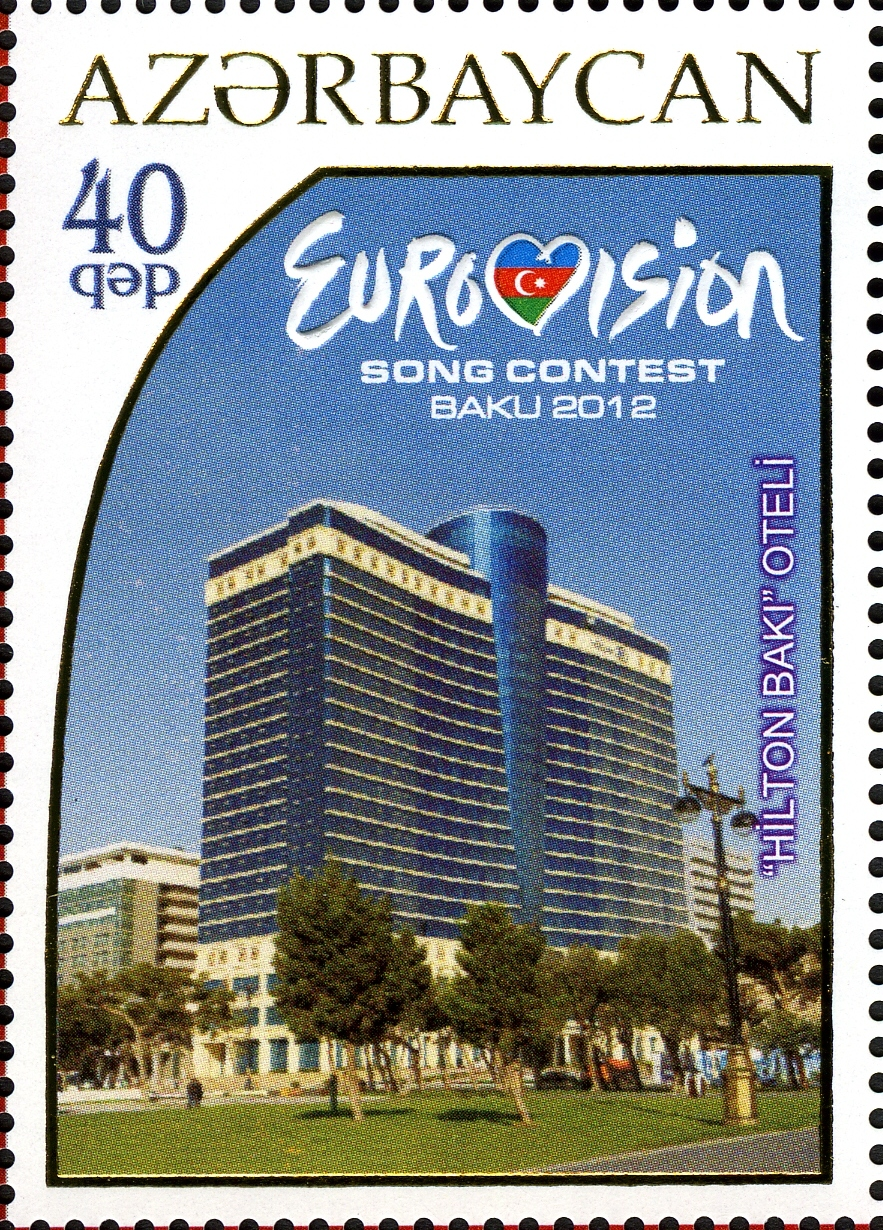 "Eurovision - 2012" song contest